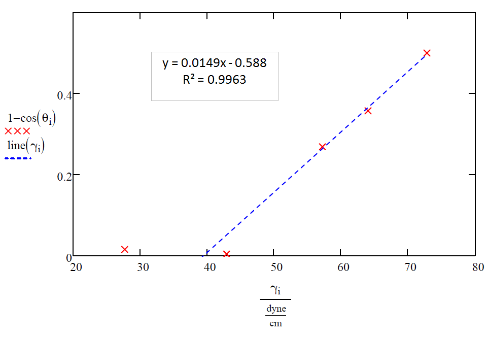 3 point Regression of Zisman Plot